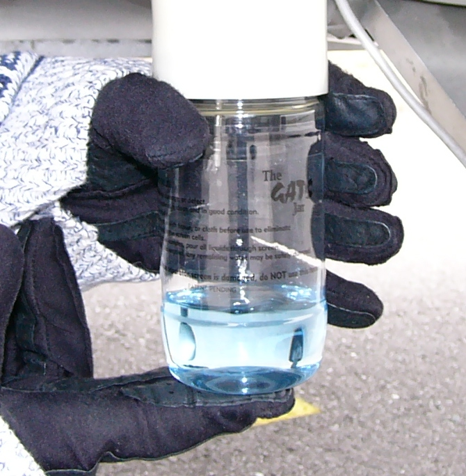 Taking a fuel sample from an American Aviation AA-1 Yankee under-wing drain using a GATS Jar fuel sampler